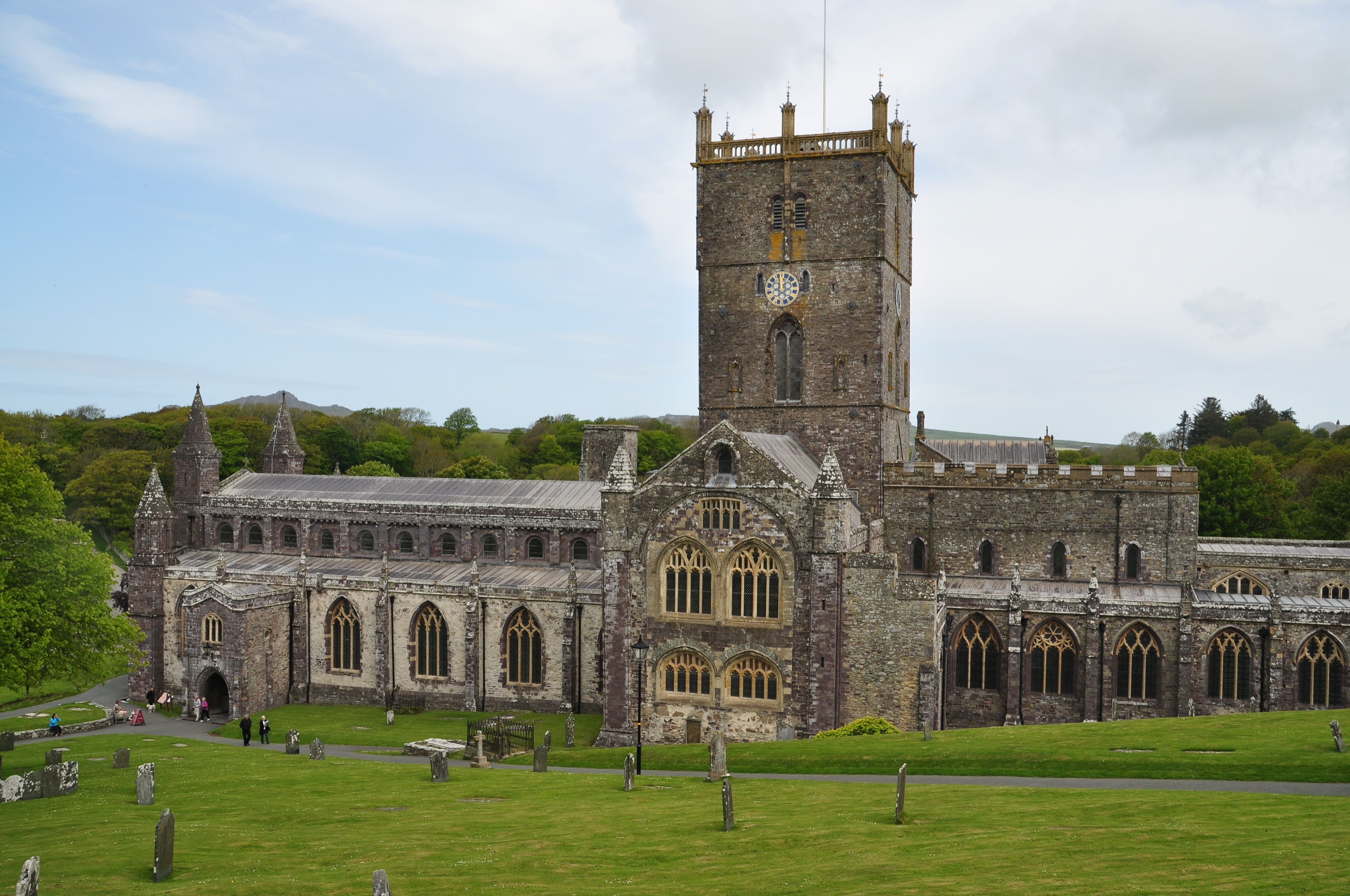 St David's Cathedral